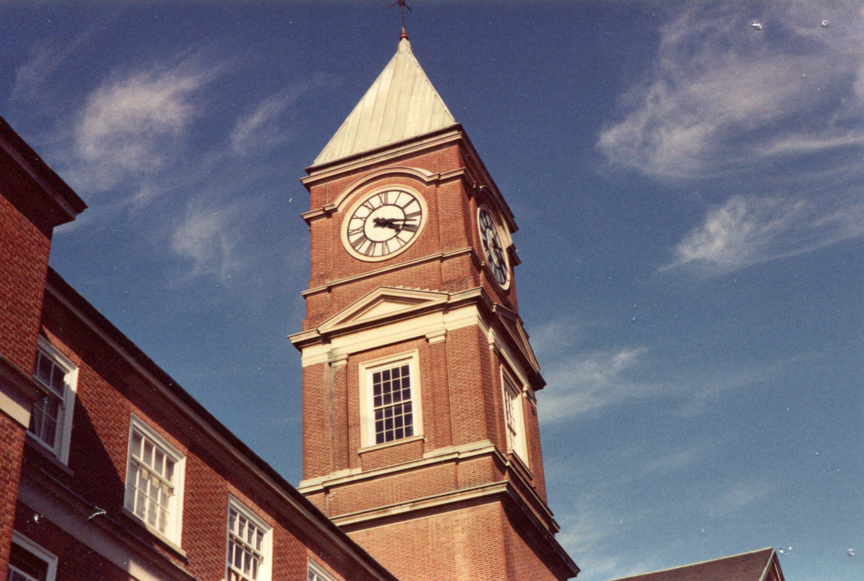 Rogers Tower of Upper Canada College